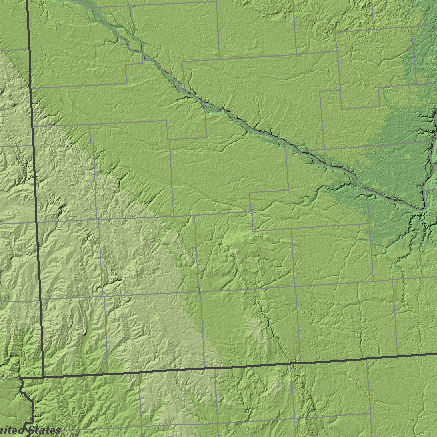 Shaded relief image from the National Atlas Mapmaker, [1] showing the eastern part of Coteau des Prairies, a highland in southwestern Minnesota in central North America. Buffalo Ridge is the eastern expression of the coteau.